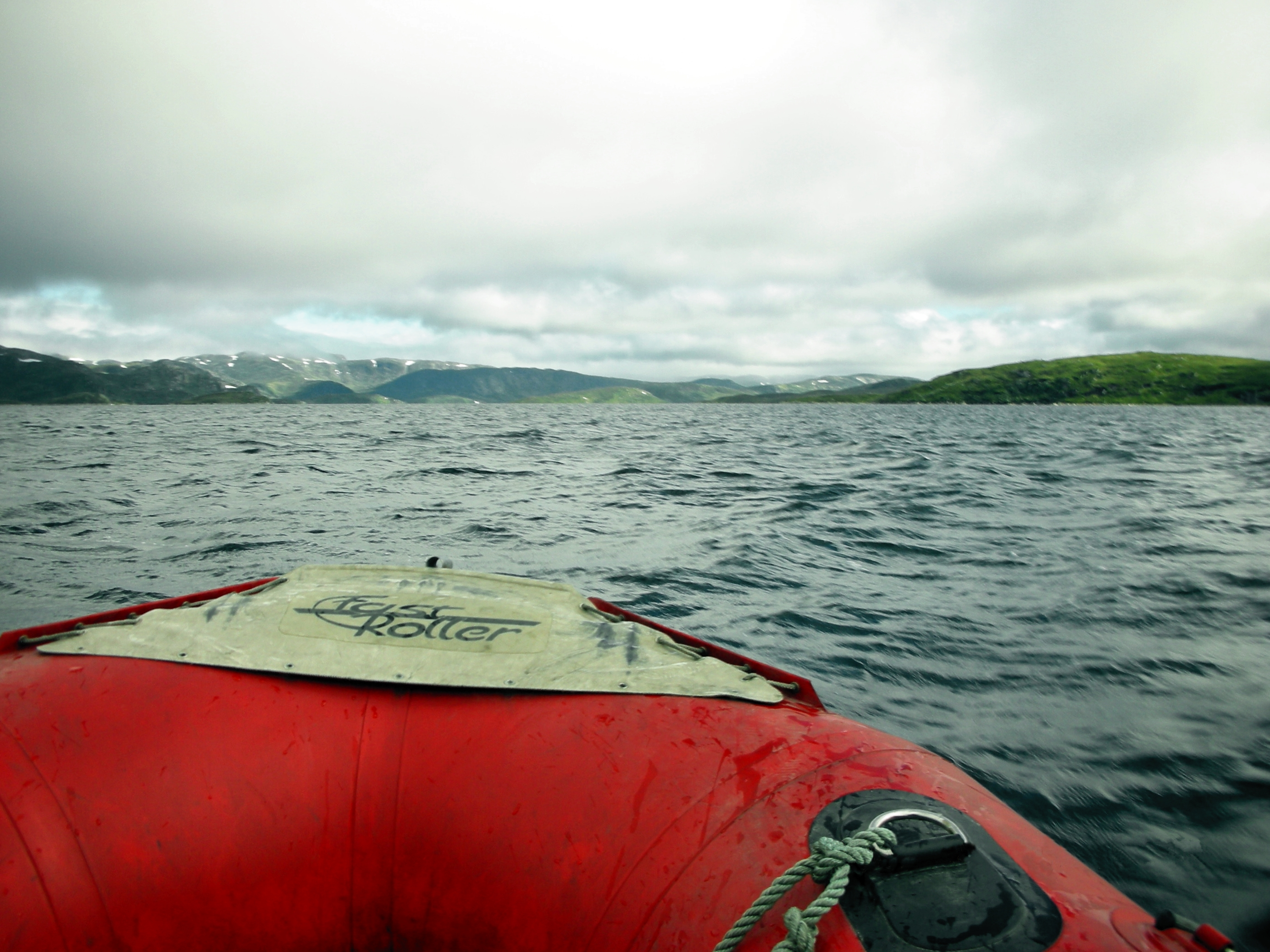 The lake Rosskreppfjorden in the southern Norway, looking to north from a boat. You can see the mountain Urddalsknuten in the background.